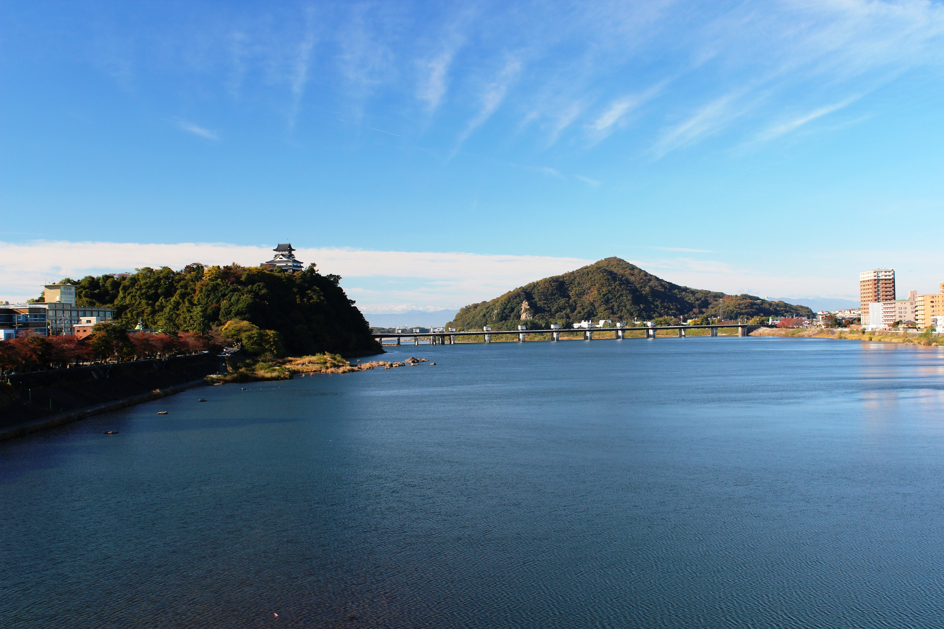 Inuyama Castle and Mount Igi seen from Inuyama Bridge of Kiso River